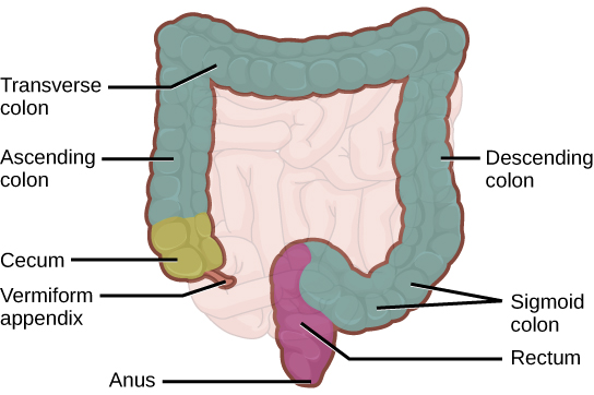 Name: Biology ID: Language: English Summary: Biology is designed for multi-semester biology courses for science majors. It is grounded on an evolutionary basis and includes exciting features that highlight careers in the biological sciences and everyday applications of the concepts at hand. To meet the needs of today’s instructors and students, some content has been strategically condensed while maintaining the overall scope and coverage of traditional texts for this course. Instructors can customize the book, adapting it to the approach that works best in their classroom. Biology also includes an innovative art program that incorporates critical thinking and clicker questions to help students understand—and apply—key concepts. Subjects: Science and Technology Keywords: cells,DNA,gene,expressio,nphylogeny,conservation,biodiversity,biology,chemistry,evolution,proteins,bacteria,fungi,cell,membranes,inheritance,physiology,ecology,genetics,biotechnology,biosphere,photosynthesis,biological,molecules,cell structure,metabolismc,ellular respiration,genes,cell communication,cell reproduction,meiosis,sexual reproduction,genomics,study of life,cell function,animal diversity,animal reproduction,plant nutrition,soilseedless plantsplant physiologyplant reproductionanimal bodycirculatory systemdigestive systemendocrine systemnervous systemrespiratory systemorigin of speciesecosystemsarchaeasensory systemosmotic regulationimmune systemvertebratesviruspopulation ecologymusculoskeletal systembehavioral biologyanimal biologyanimal physiologybiology for majorscollege biologyeukaryotesinvertebratesmacromoleculesplant biologypopulation evolutionprokaryotesprotistsseed plants Print Style: CCAP Biology License: Creative Commons Attribution License (by 4.0) Authors: OpenStax Copyright Holders: Rice University Publishers: OpenStax OpenStax Biology Latest Version: 10.53 First Publication Date: Aug 22, 2012 Latest Revision: May 27, 2016 Last Edited By: OpenStax Biology